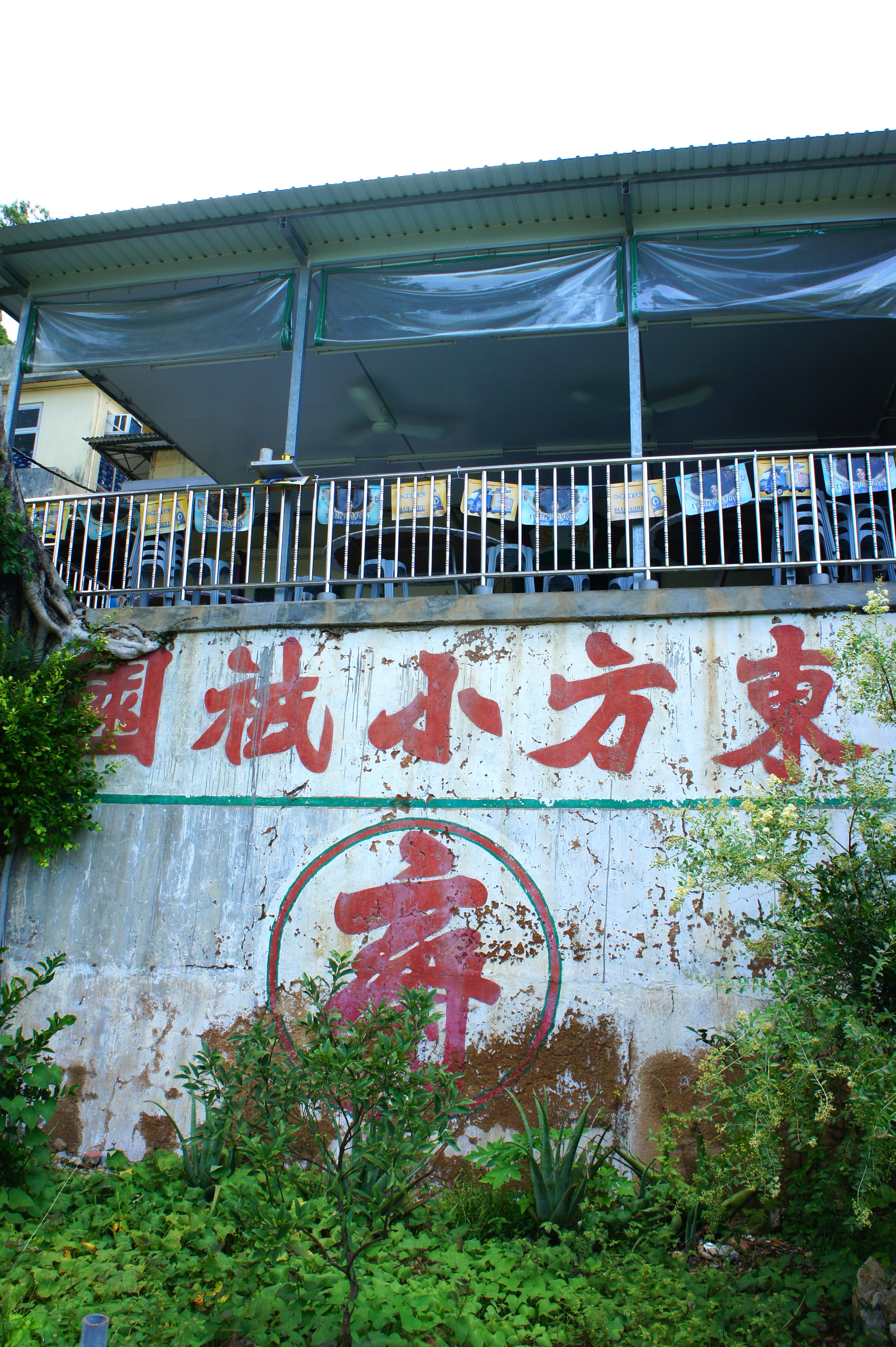 Tung Fong Siu Kee Yuen Vegetarian Restaurant, Tai O, Lantau Island, Hong Kong.